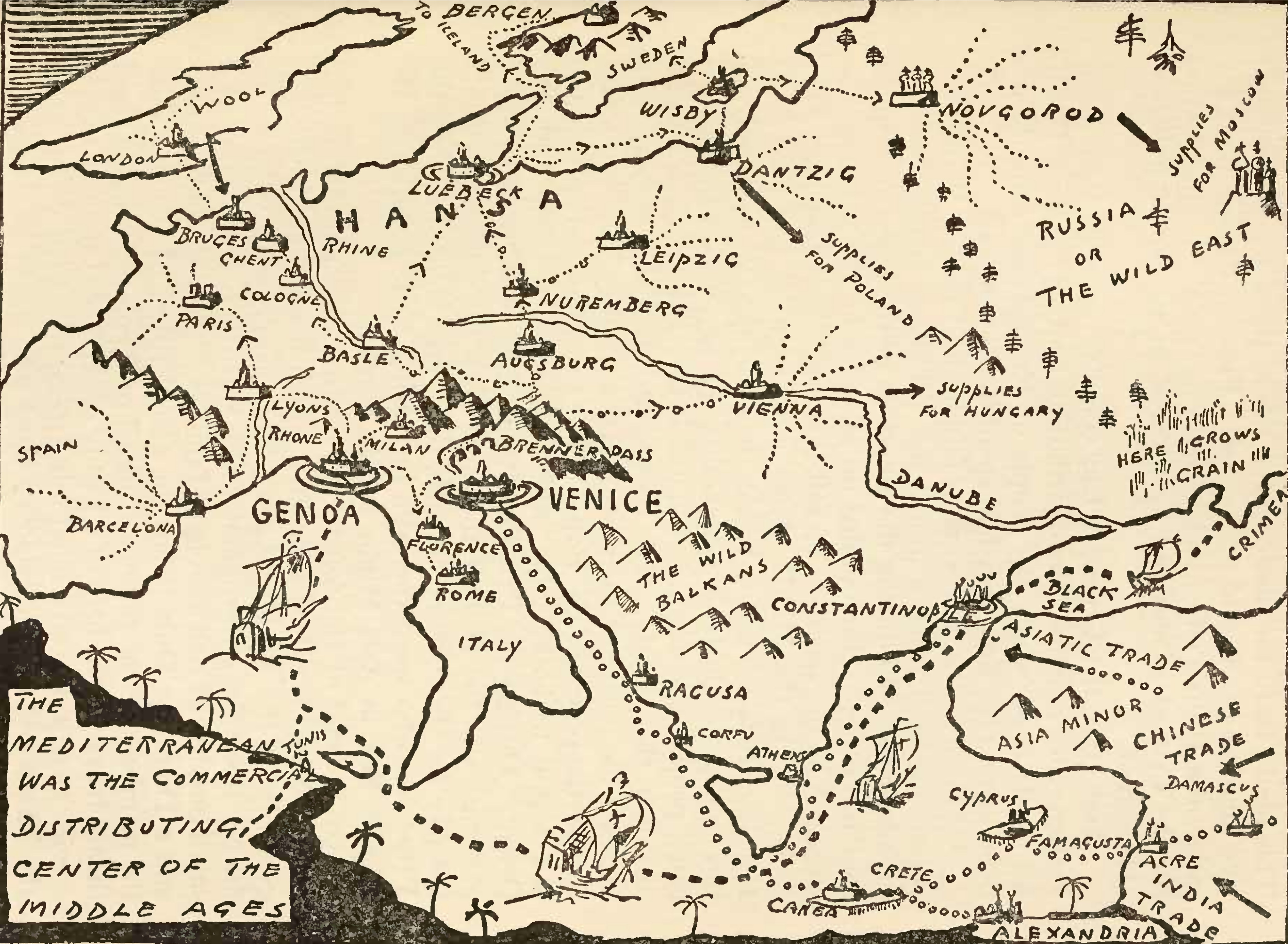 Depiction of Medieval trade routes.